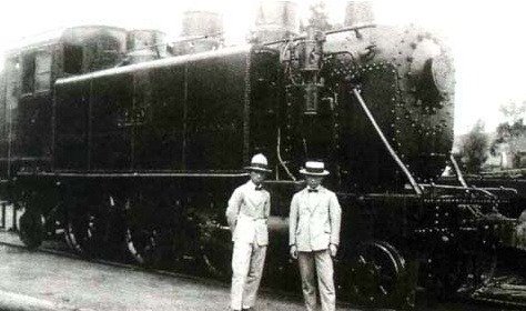 A Pureshi-class locomotive of the Chosen Government Railway after rebuilding in 1925.